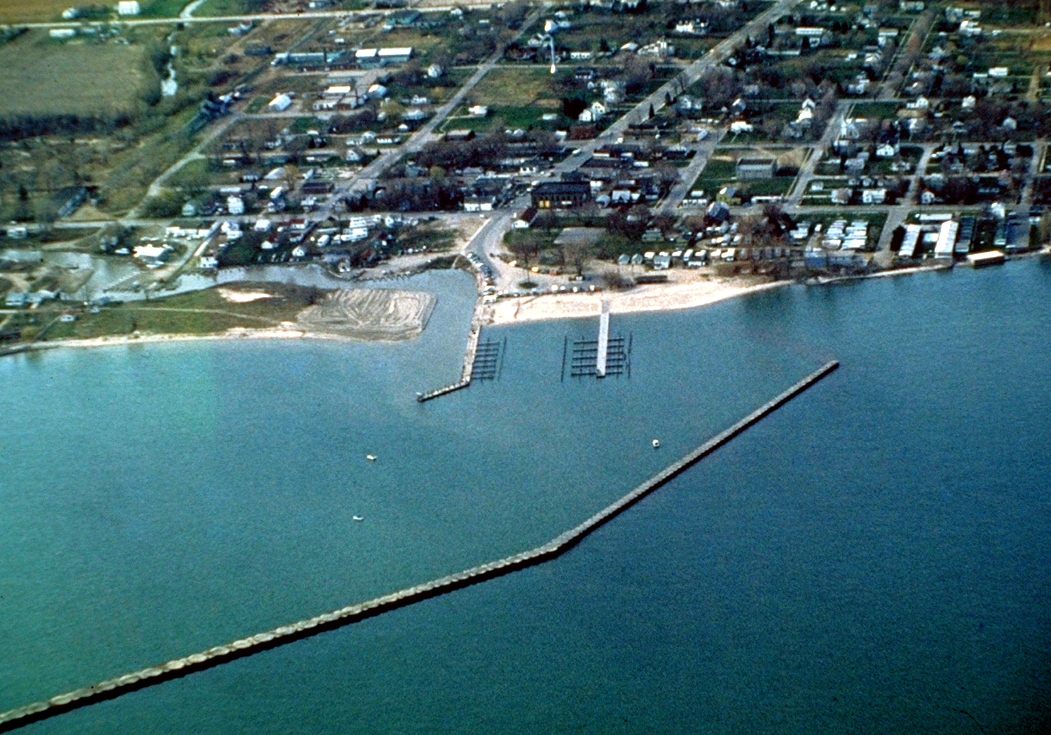 Aerial view of Port Austin, Michigan, USA. The city lies on the northeast edge of Saginaw Bay on Lake Huron.